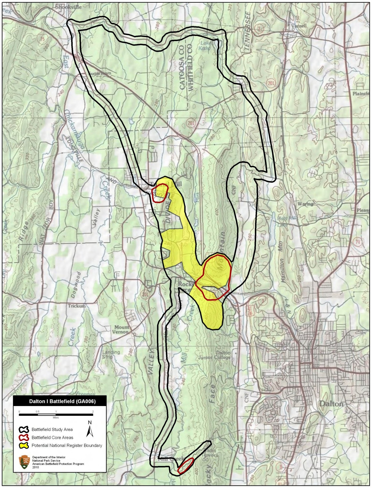 Map of battlefield core and study areas. The ABPP made significant changes to the 1993 boundaries. Northern approaches of the Army of the Cumberland were added to the Study Area to show the extent of Federal flanking operations around Dalton. The Core Areas were reduced to the specific areas of fighting at Tunnel Hill and Mill Creek Gap.